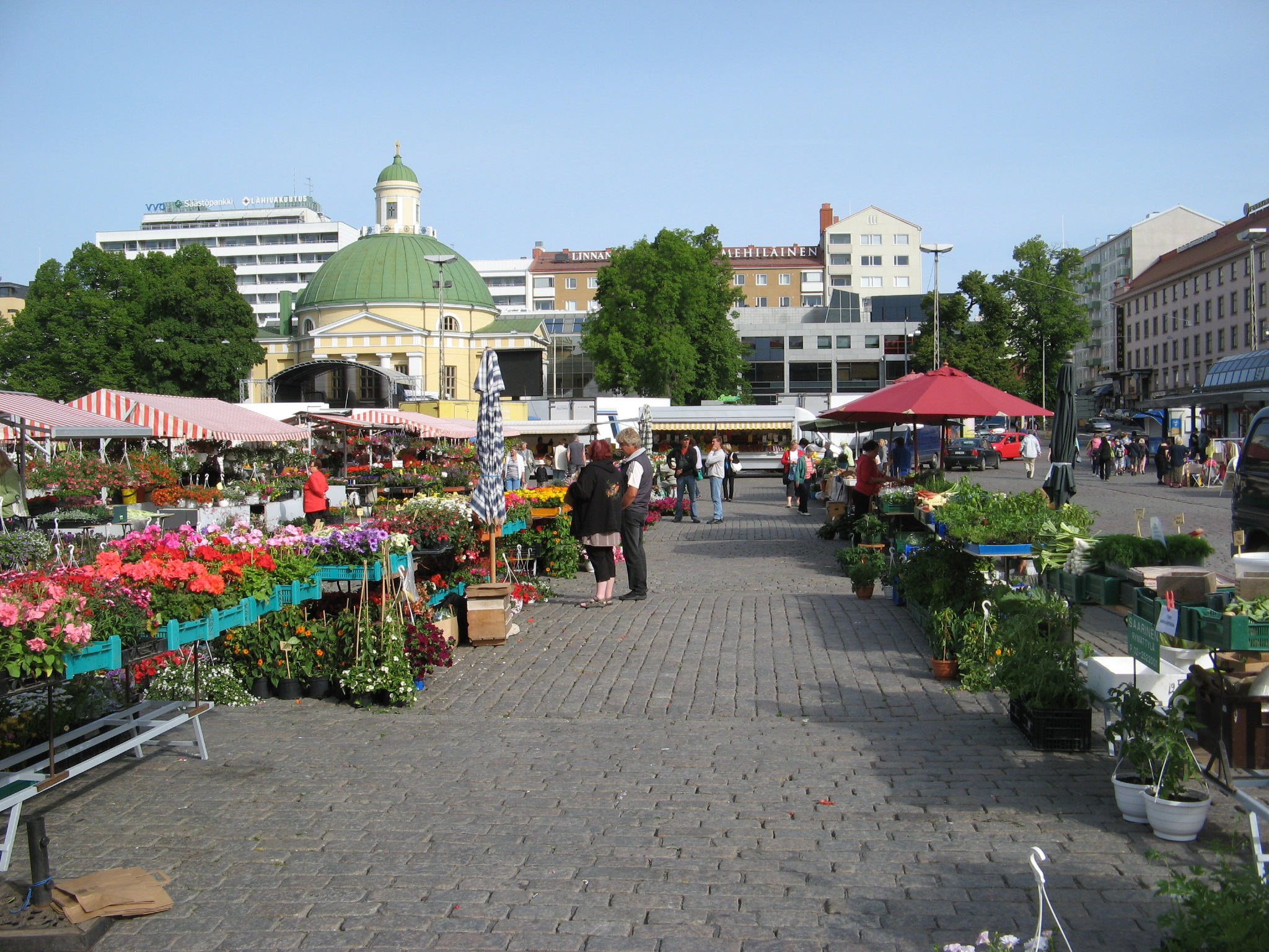 Turku market square a Wednesday morning. Flowers to the left, vegetables sold by farmers to the right. The ortodox church in the background.